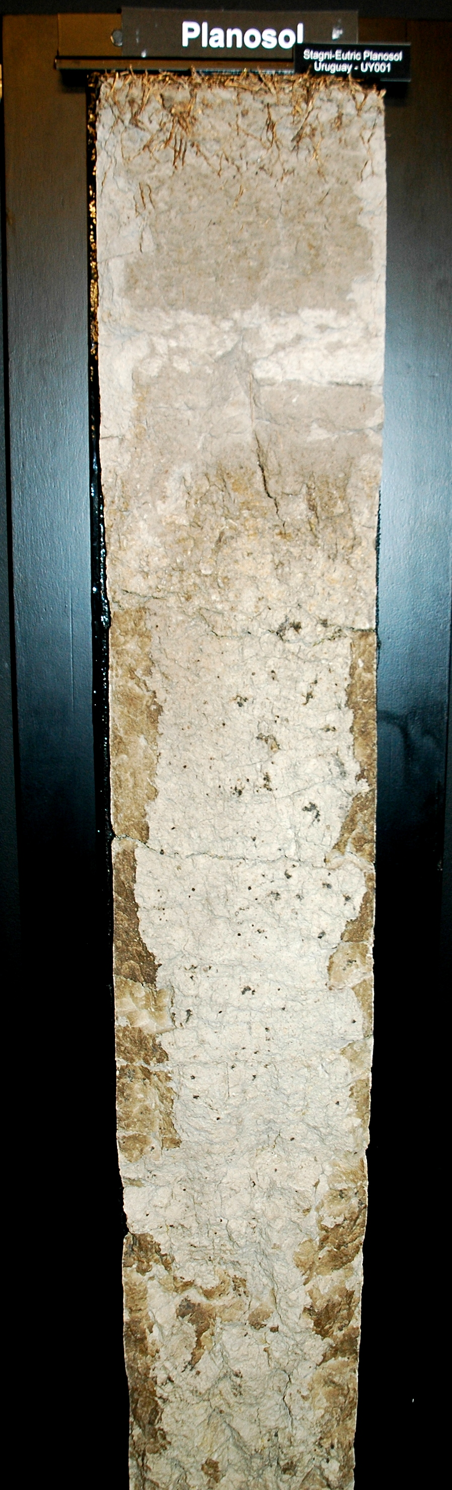 Soil profile of a Stagni-eutric Planosol